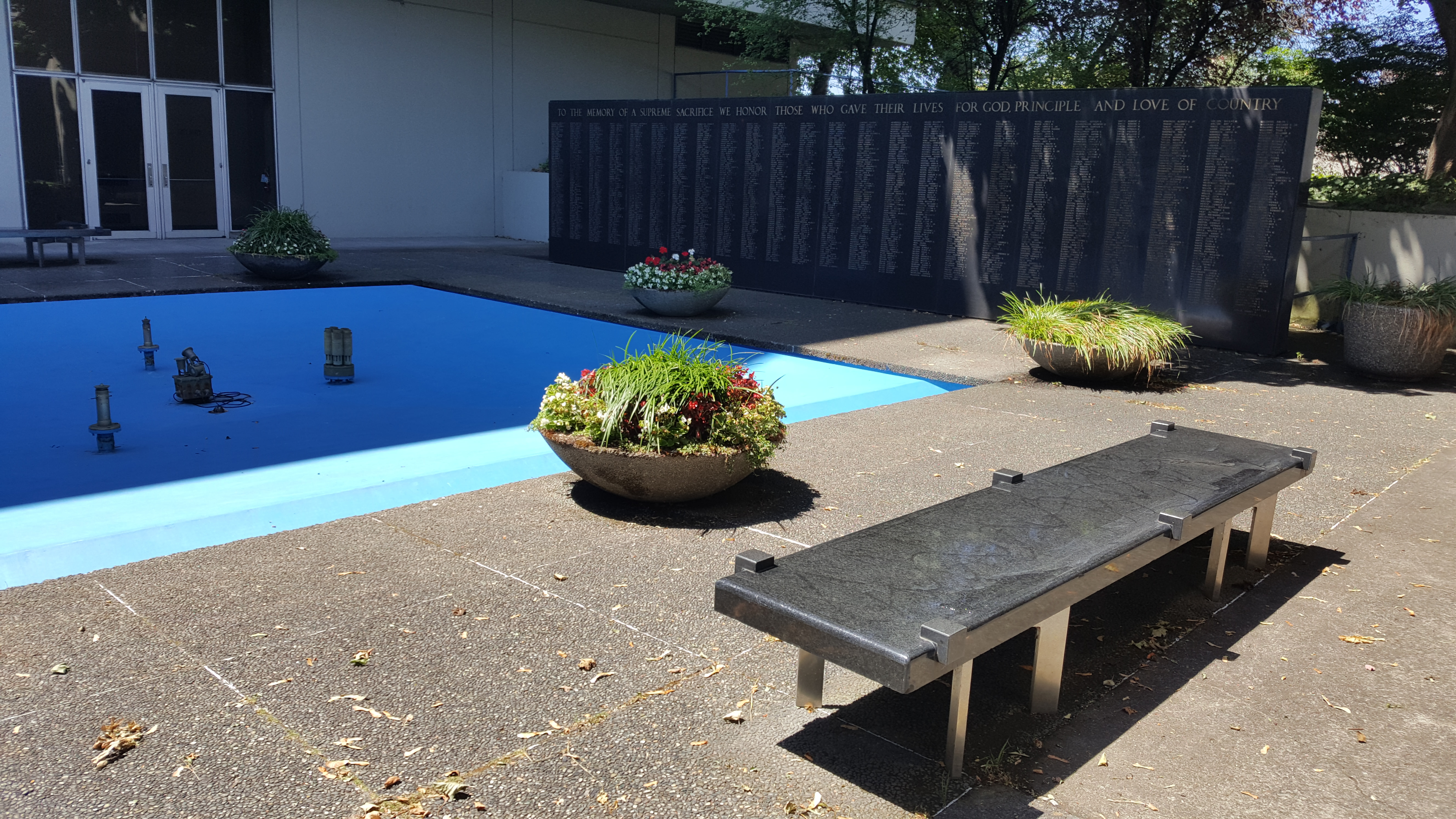 Portland, Oregon, July 25, 2020